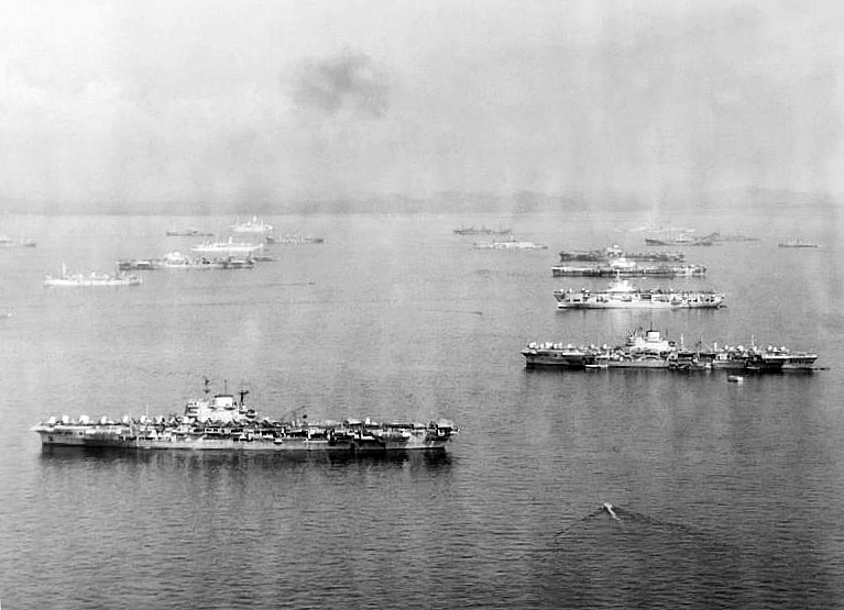 The British aircraft carriers HMS Indomitable (R92), HMS Indefatigable (R10), HMS Unicorn (I72), HMS Illustrious (R87), HMS Victorious (R38) and HMS Formidable (R67) at anchor, with other shipping.